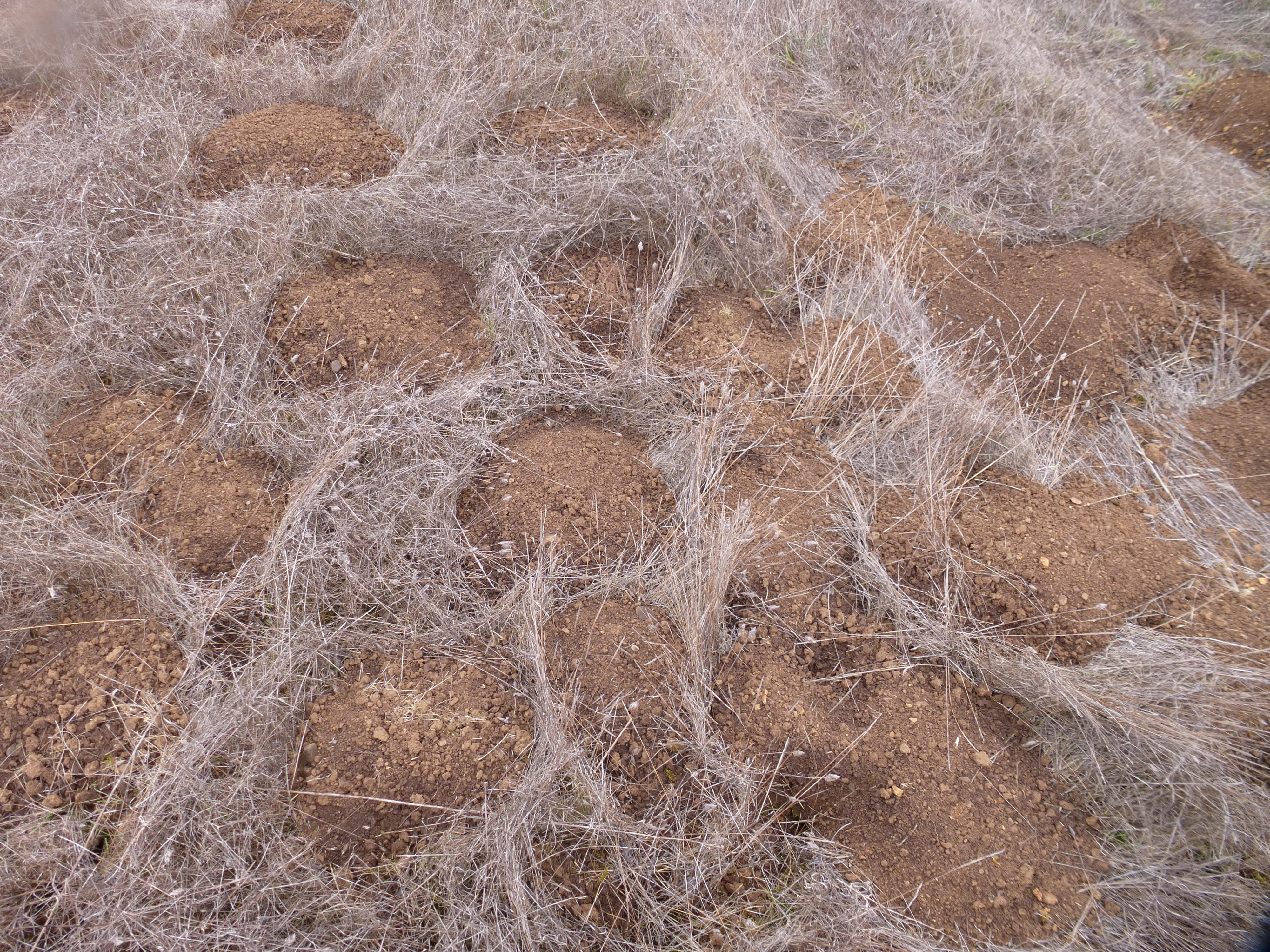 Photograph taken on habitat restoration site where the gophers were being trapped out of concern that they were destroying sensitive vegetation.